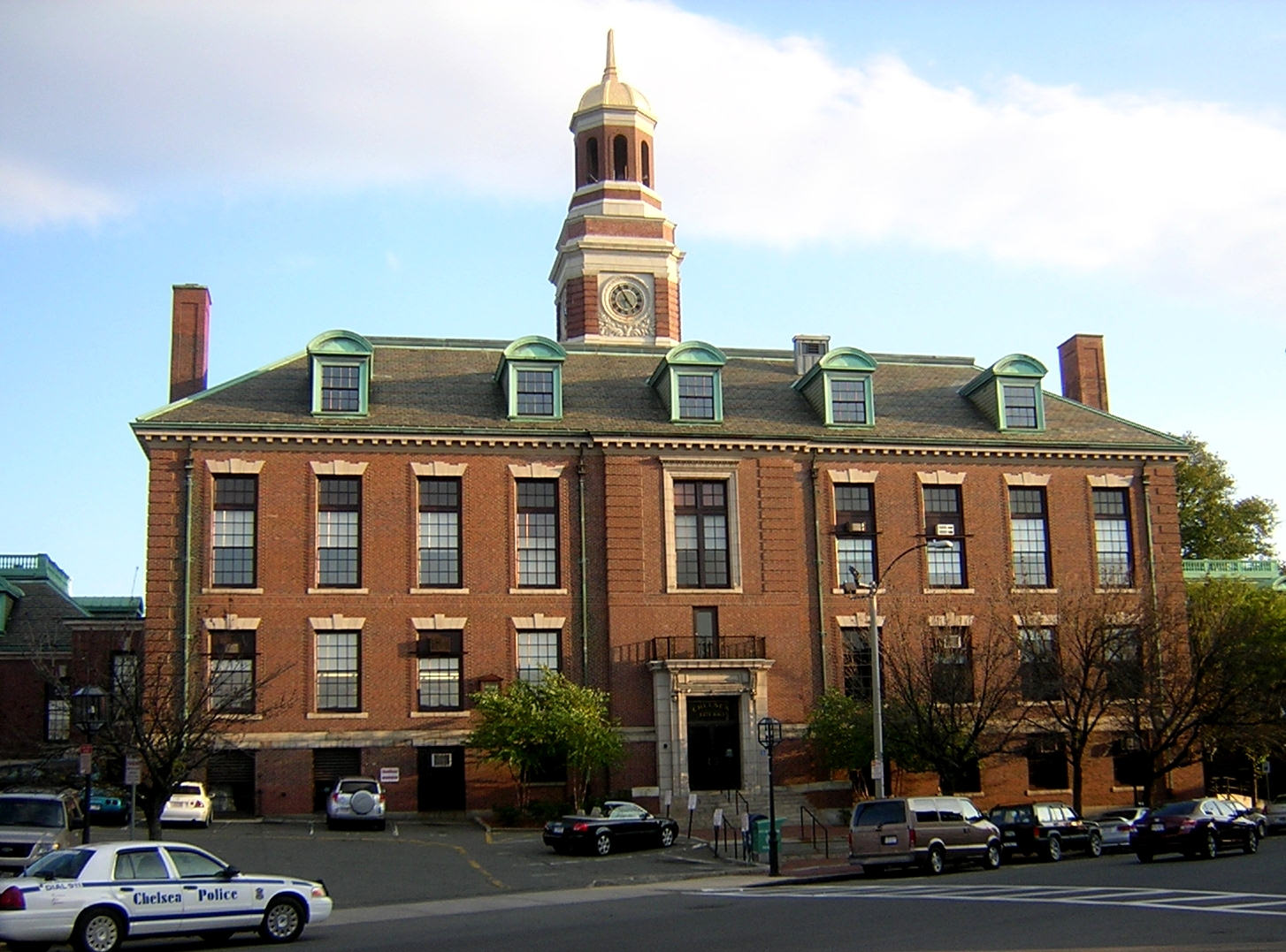 Back side of City Hall, Chelsea, MA